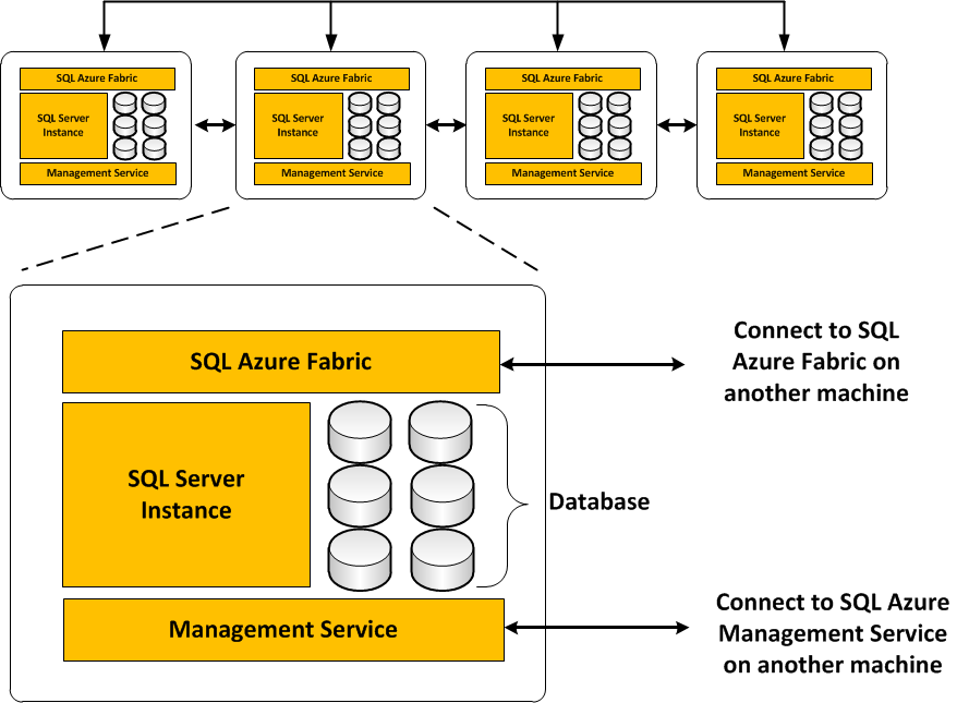 SQL Azure HA/Fabric Architecture